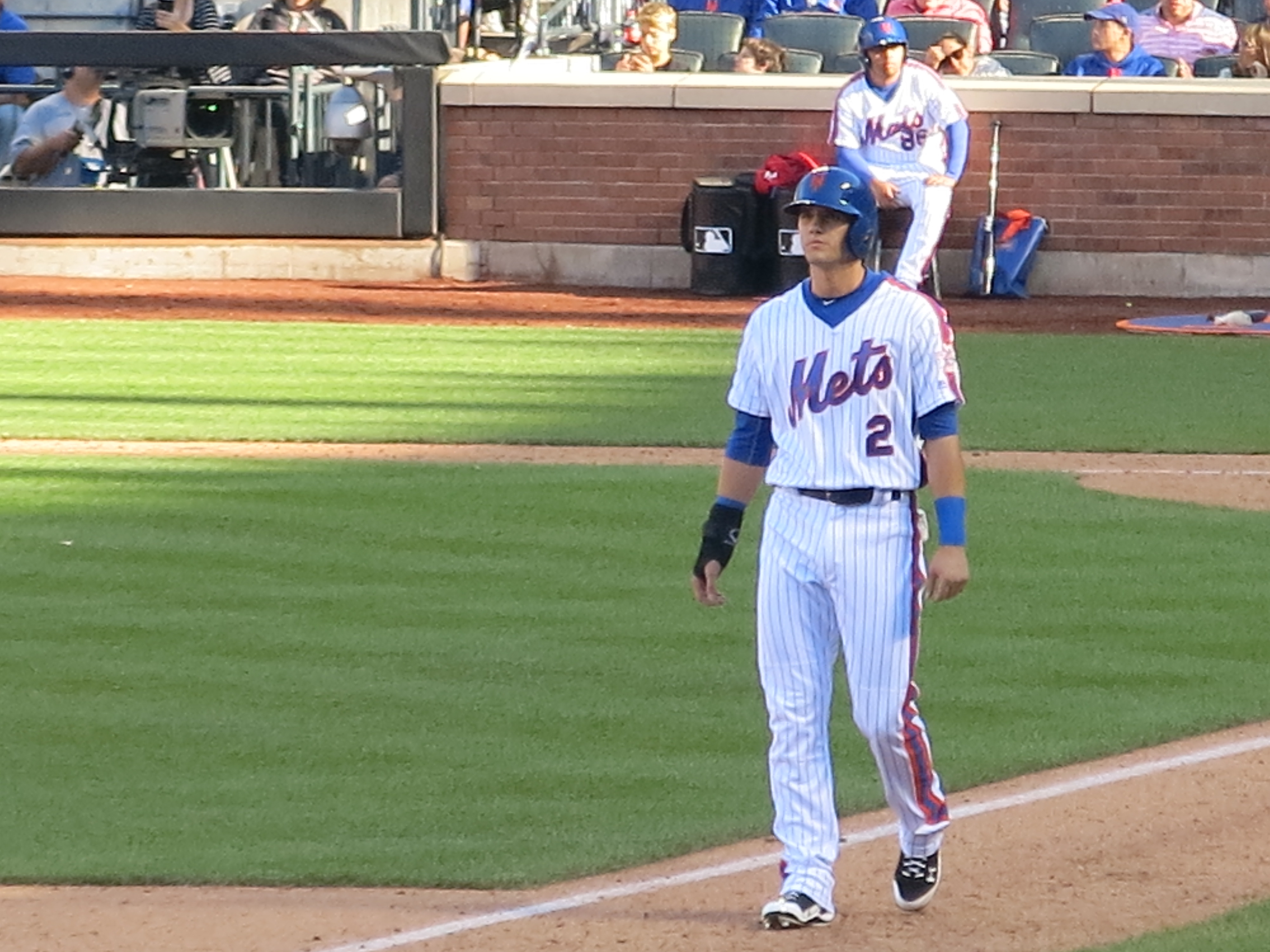 Gavin Cecchini of the New York Mets, September 25, 2016.